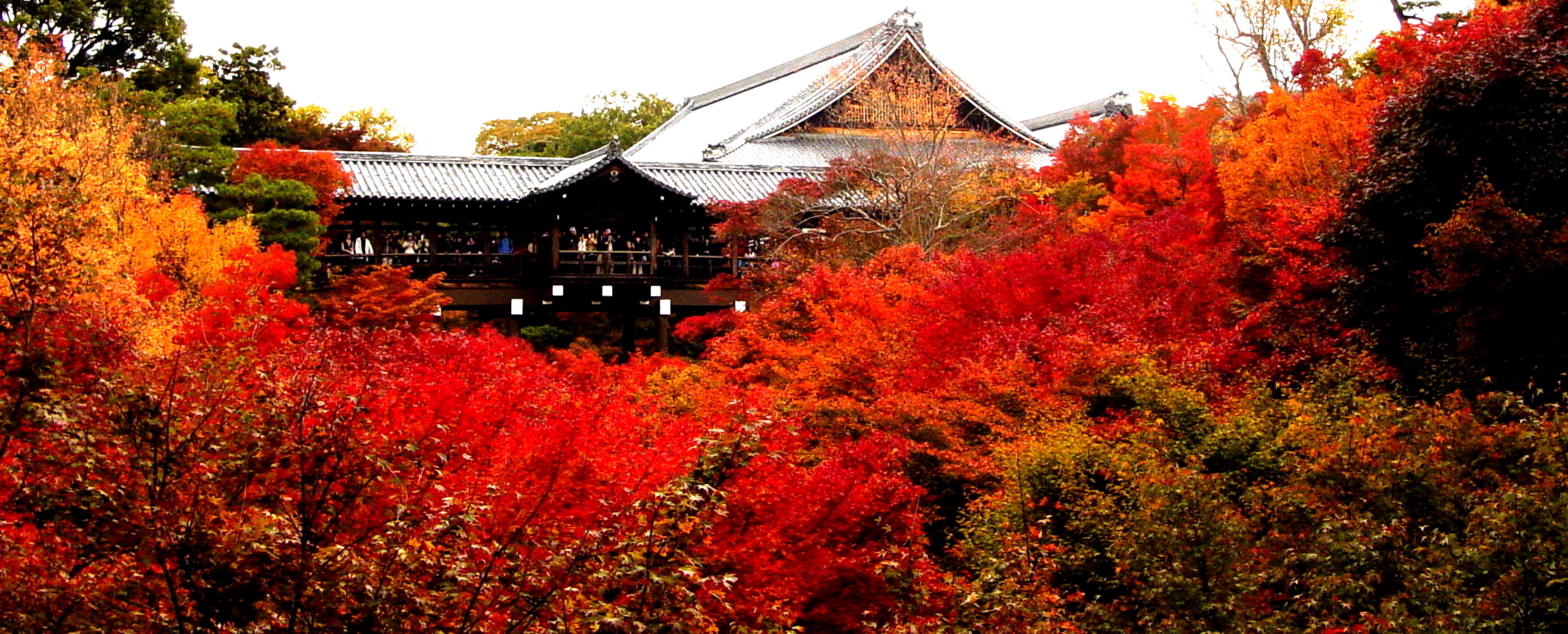 don't mine don't mine me a product of misinformed promos mind full and fully mindful; on sale five nine nine. failing to formulate adroitly articulate